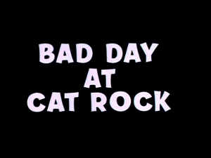 Title card of the 1964 cartoon, Bad Day at Cat Rock